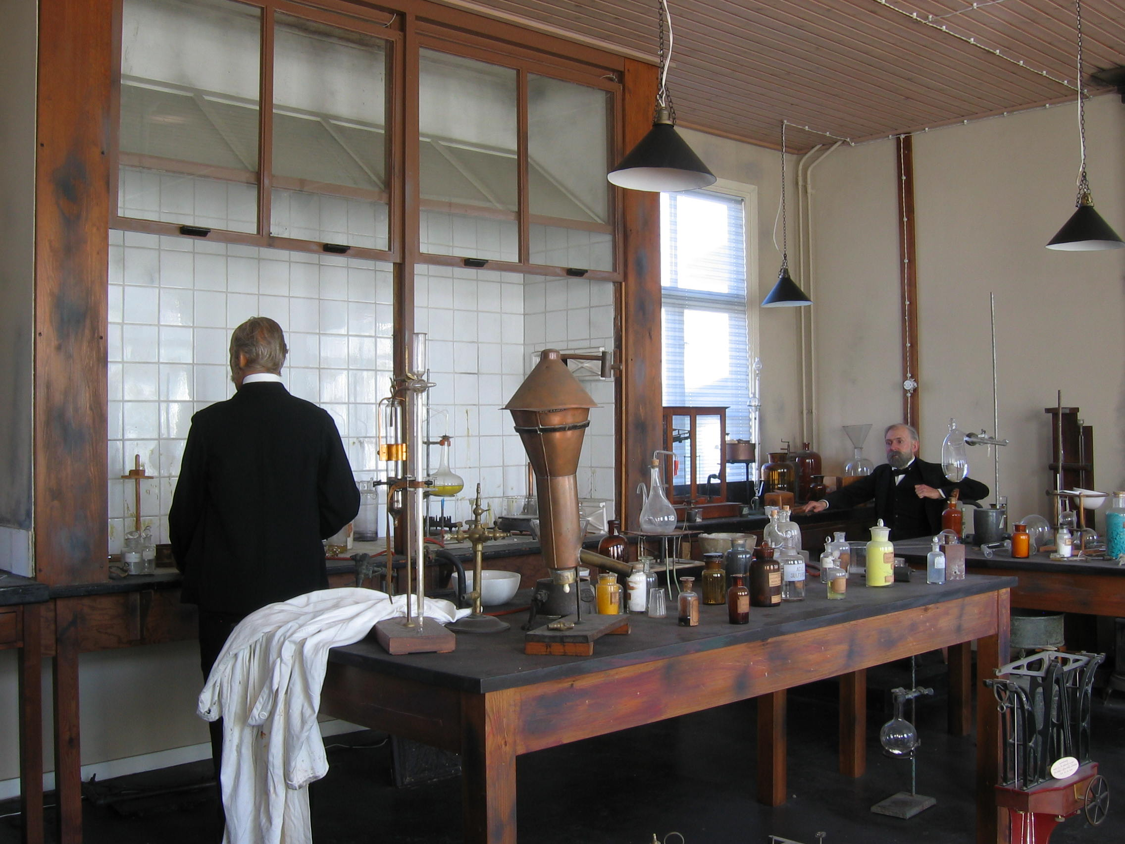 Interior from Alfred Nobels laboratory, Nobel Museum in Karlskoga, Sweden.